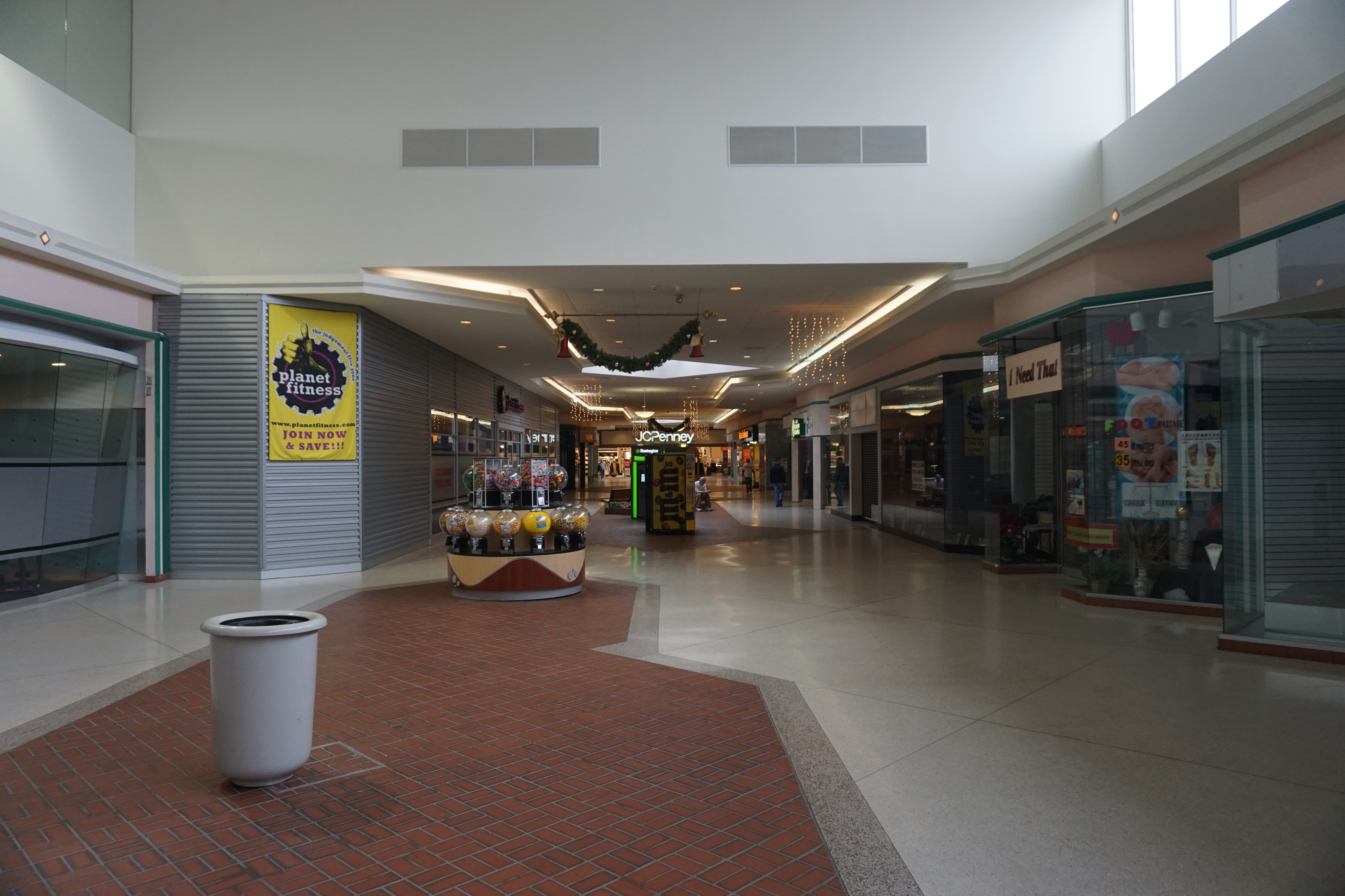 The interior of Courtland Center in Burton, Michigan (United States).